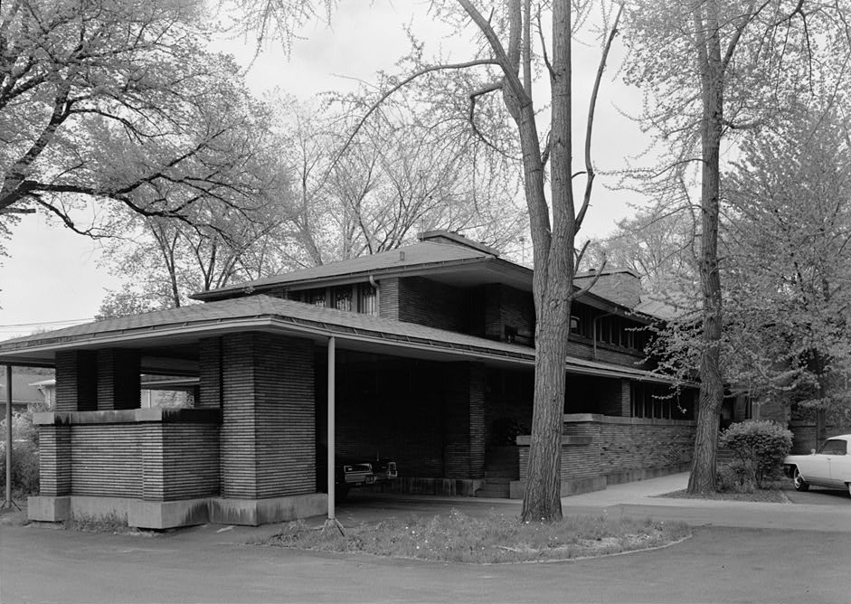 West side elevation and porte cochere of Darwin D. Martin House, 125 Jewett Parkway, Buffalo, Erie County, NY.